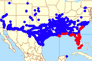 Cactoblastis Distribution in the US Blue= Prickly pear locations Red= Cactus Moth locations